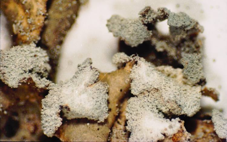 Hypogymnia physodes (L.) Nyl. (photograph of a herbarium specimen showing lobe tips with lip-shaped soralia and soredia) Growing on conifer branch at Pellston campground, Emmet County, Michigan; collected and identified by Richard E. Riefner (No. 81-262, 26 Jun 1981); specimen is now in the Lichen Herbarium of the New York Botanical Garden.